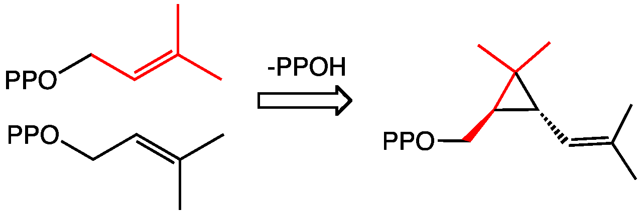 biosynthesis of chrysanthemyl diphosphate better color coding vs unprimed version of same drawing